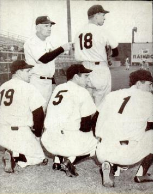 Original caption: "In charade fashion, New York Yankees act out hopes of 18th pennant in 1951. Manager Casey Stengel points to goal on Bob Muncrief's back, while combined uniforms of (l. to r.) Frank Shea, Joe DiMaggio and Jim Brideweser form calendar year."